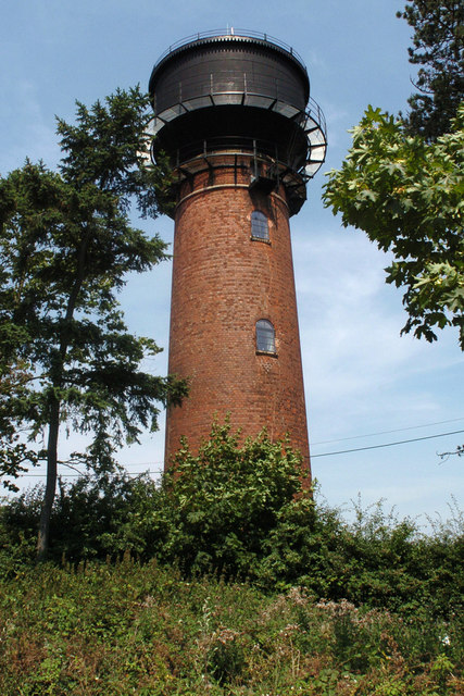 Coleshill Water Tower. Tower converted into house as seen on Channel 4 Grand Designs The red-brick water tower was built in 1916 by German prisoners of war. It fell into disuse in 1990. You can see six counties and over 1,000 sq miles from the top, including London towers such as Canary Wharf. More pictures from Grand Designs